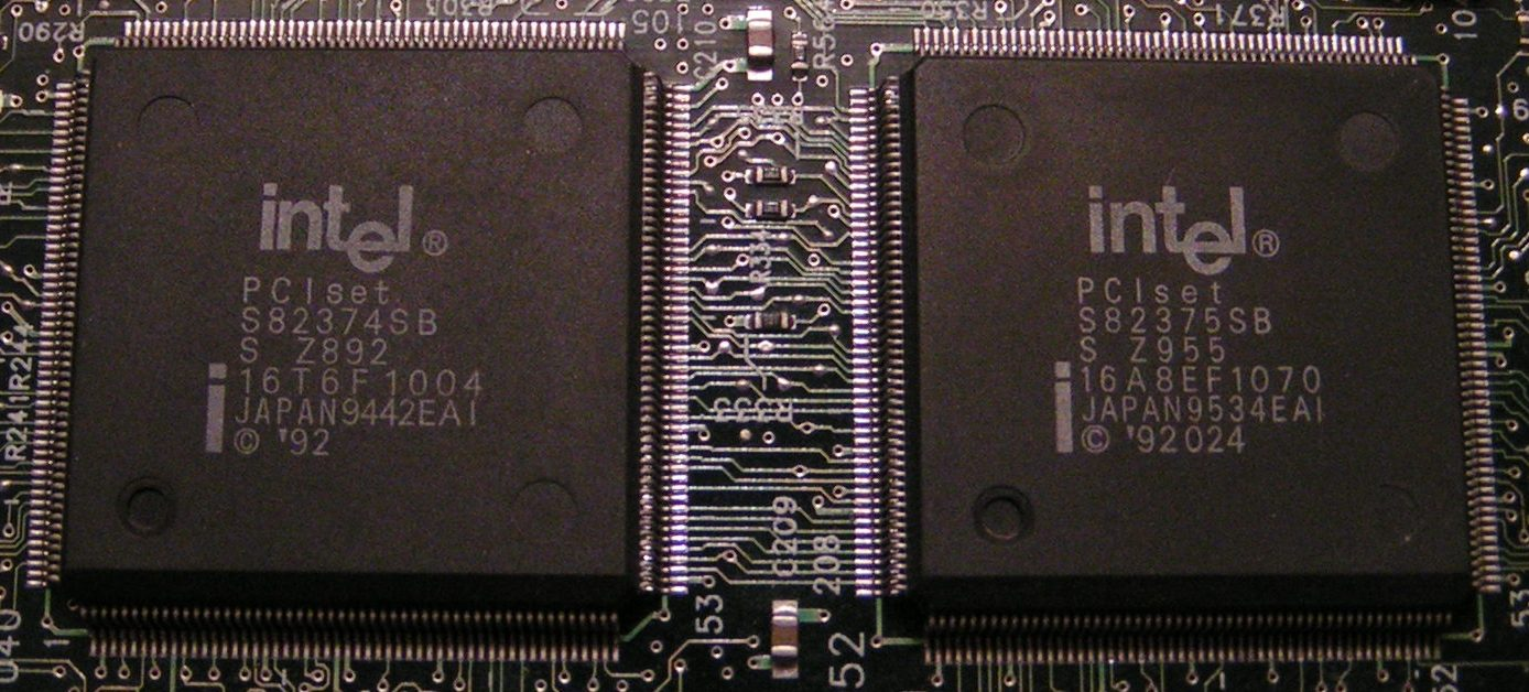 intel S82374SB and S82375SB